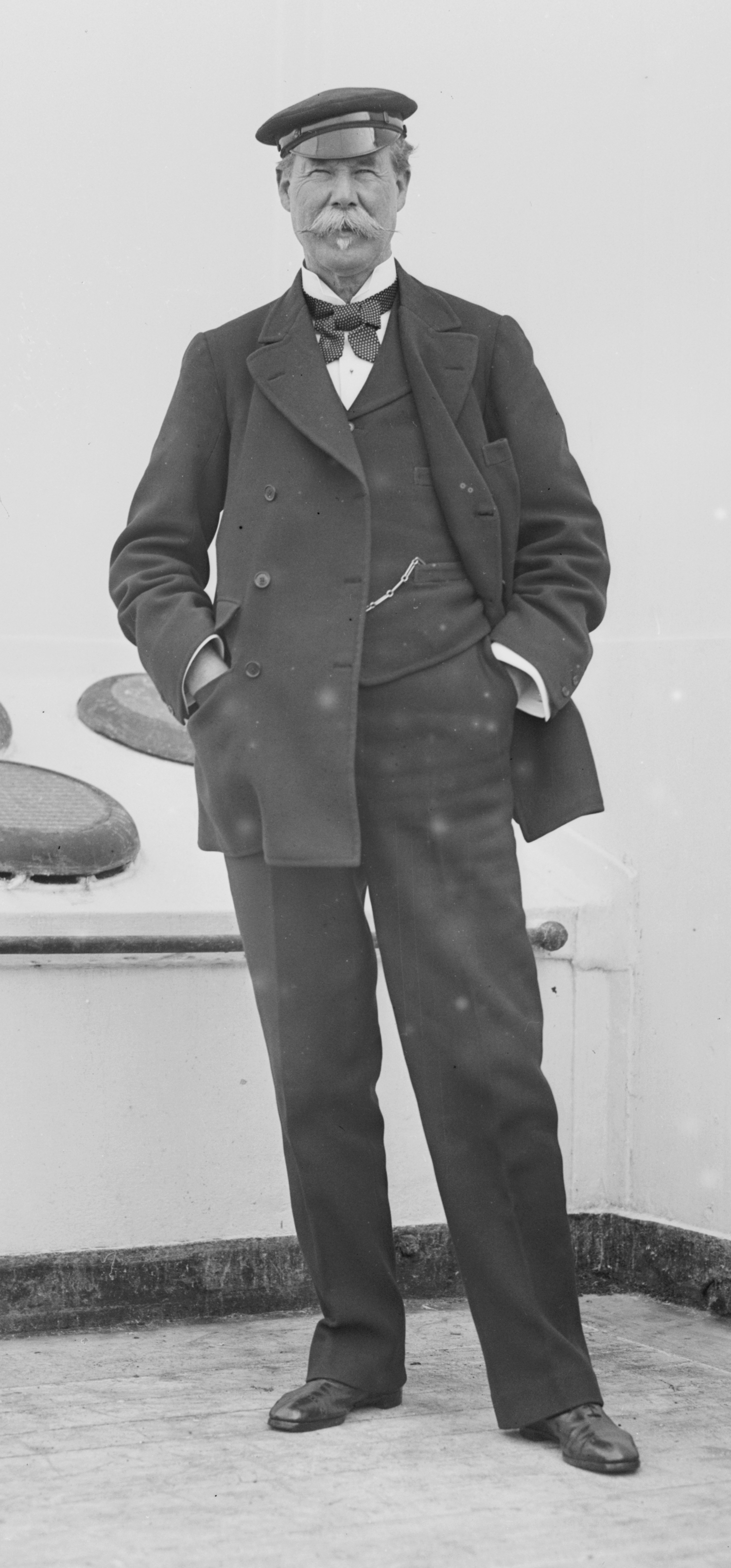 Sir Thomas Johnstone Lipton (1848-1931)